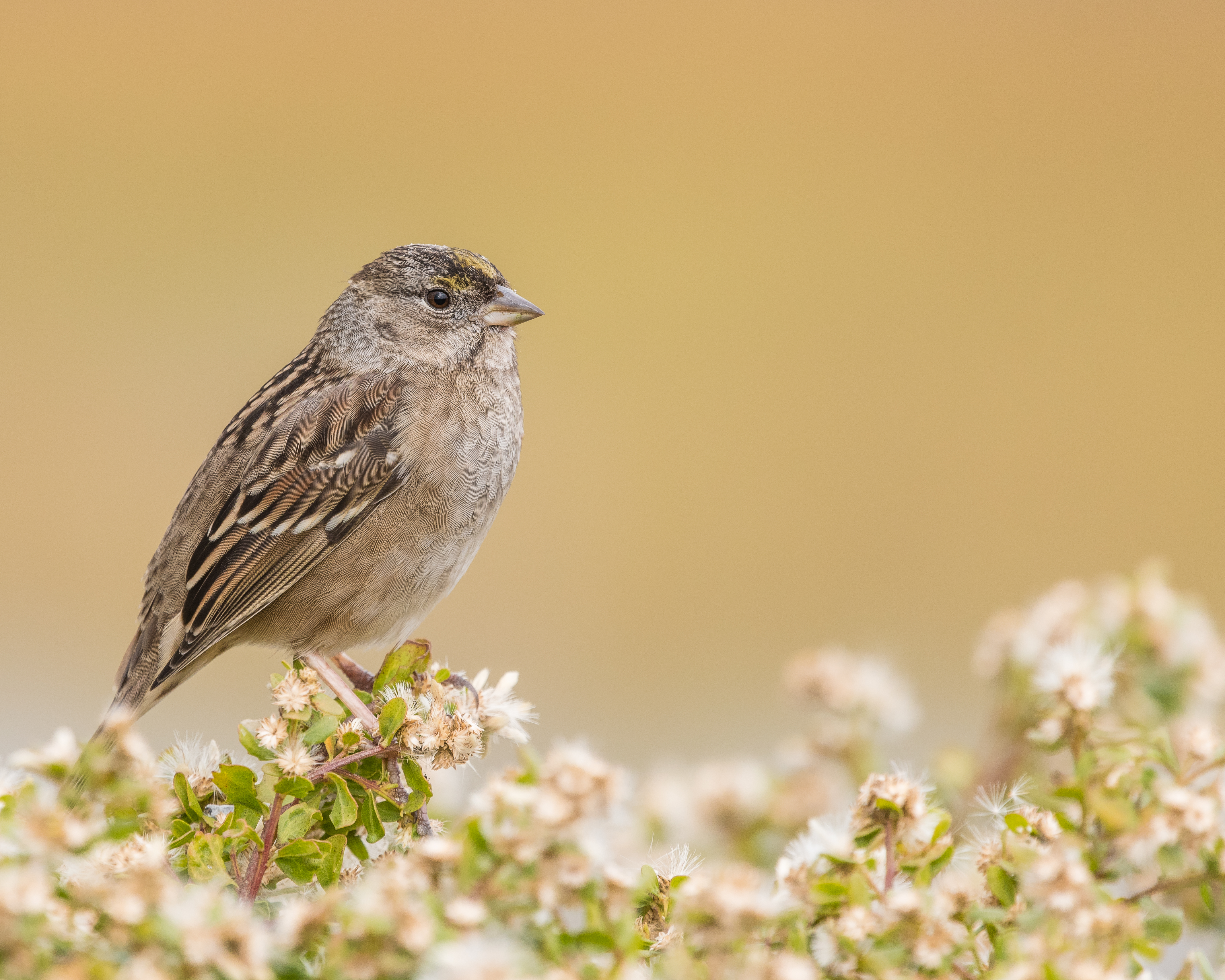 San Francisco Bay Trail, Hoffman Marsh, Richmond, California